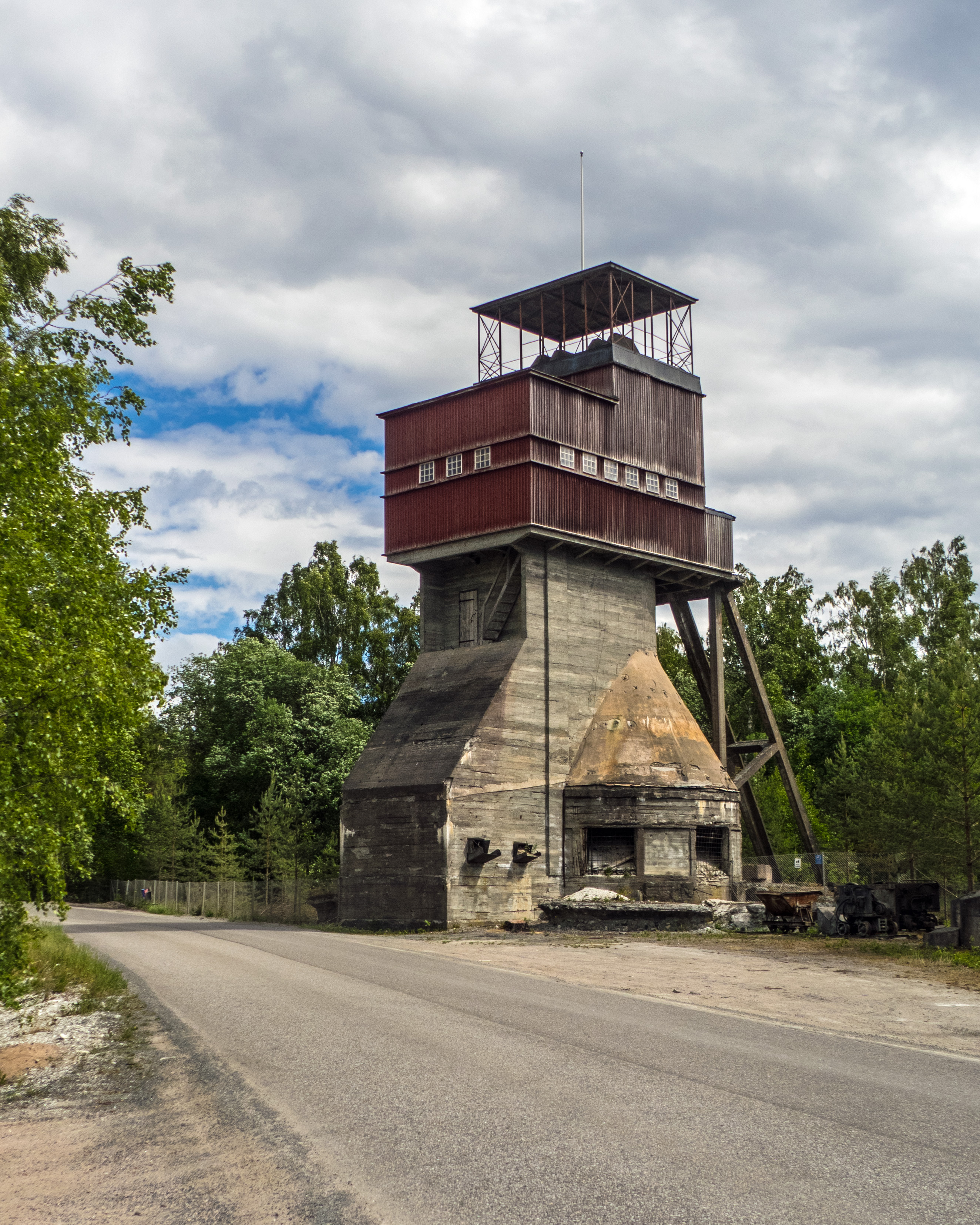 Abandoned tower in Förby limestone quarry